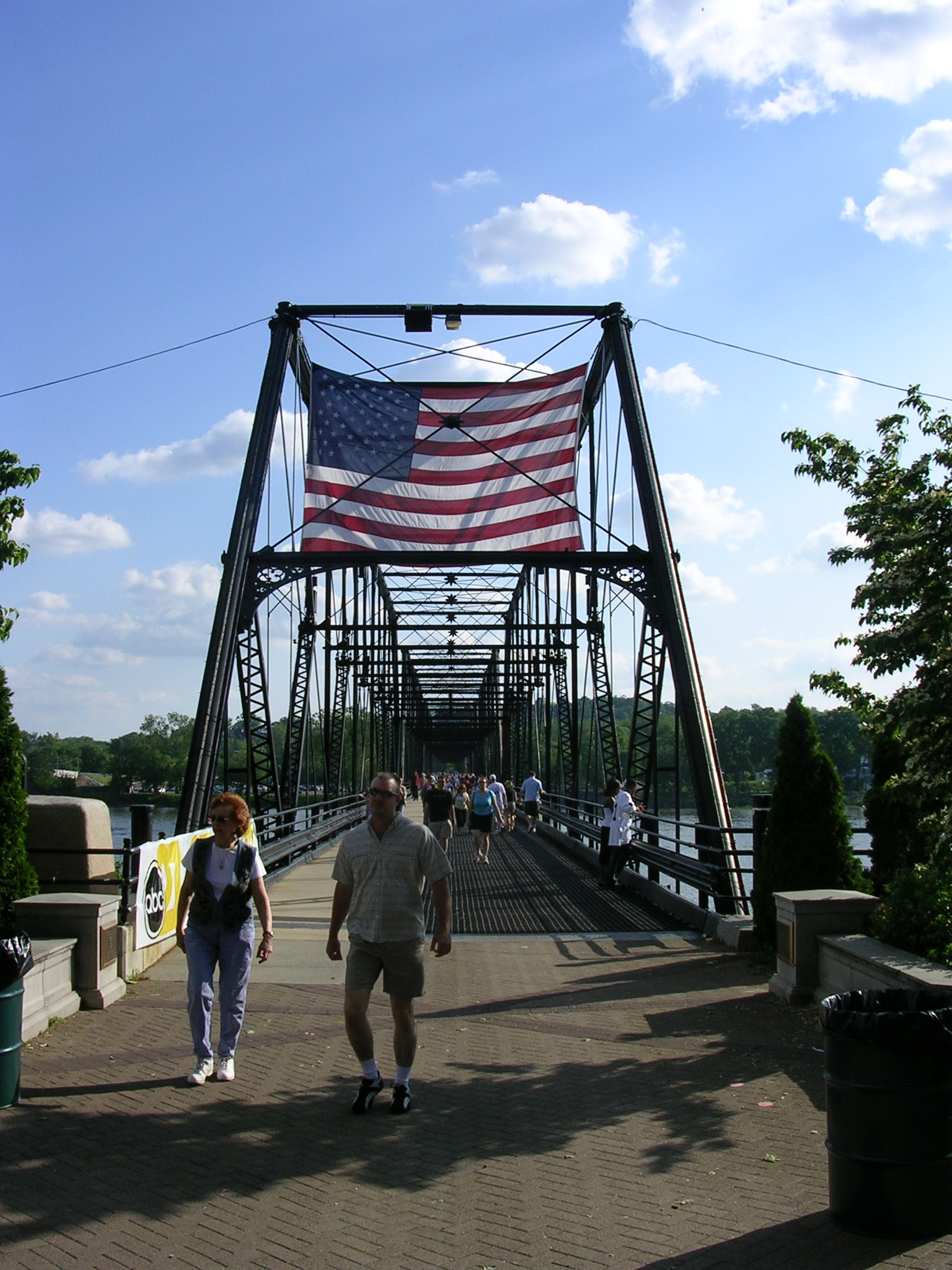 The Walnet Street Bridge, packed with pedestrians on Memorial Day weekend.